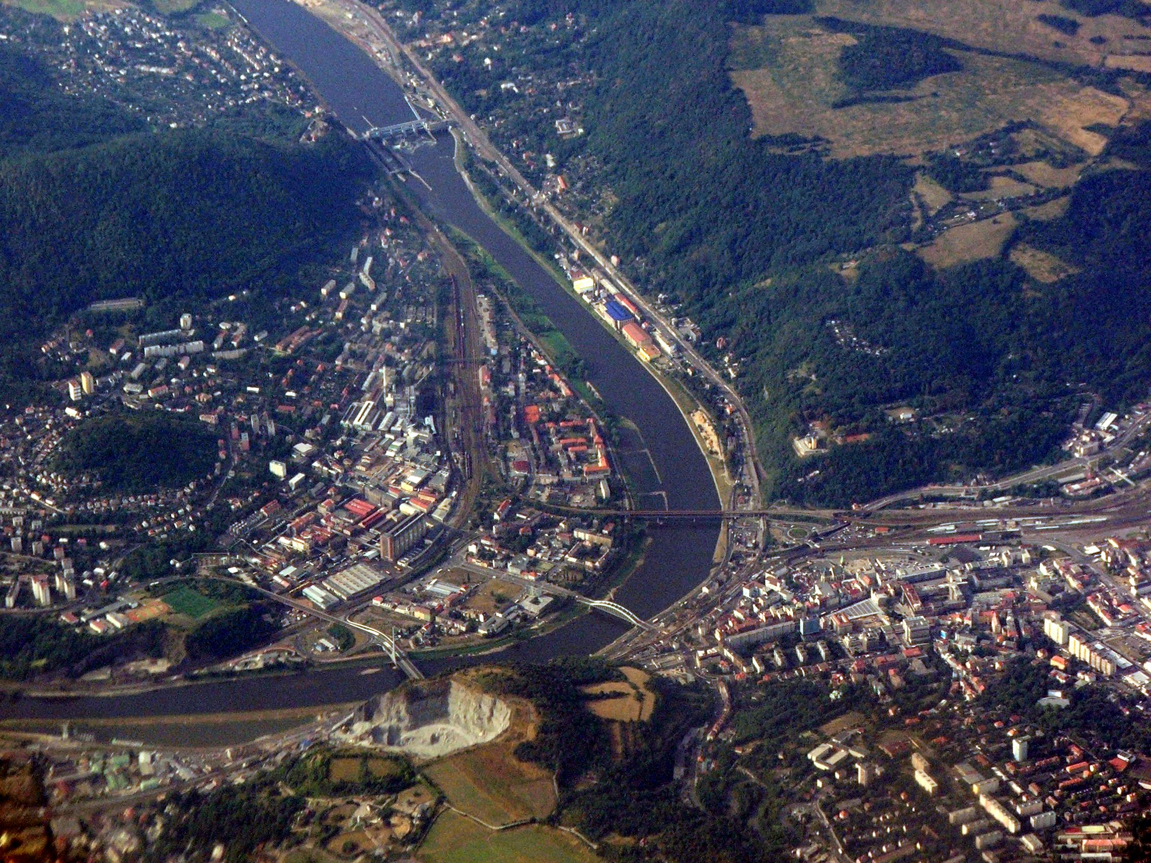 Ústí nad Labem, general view, flying from London Stansted to Prague